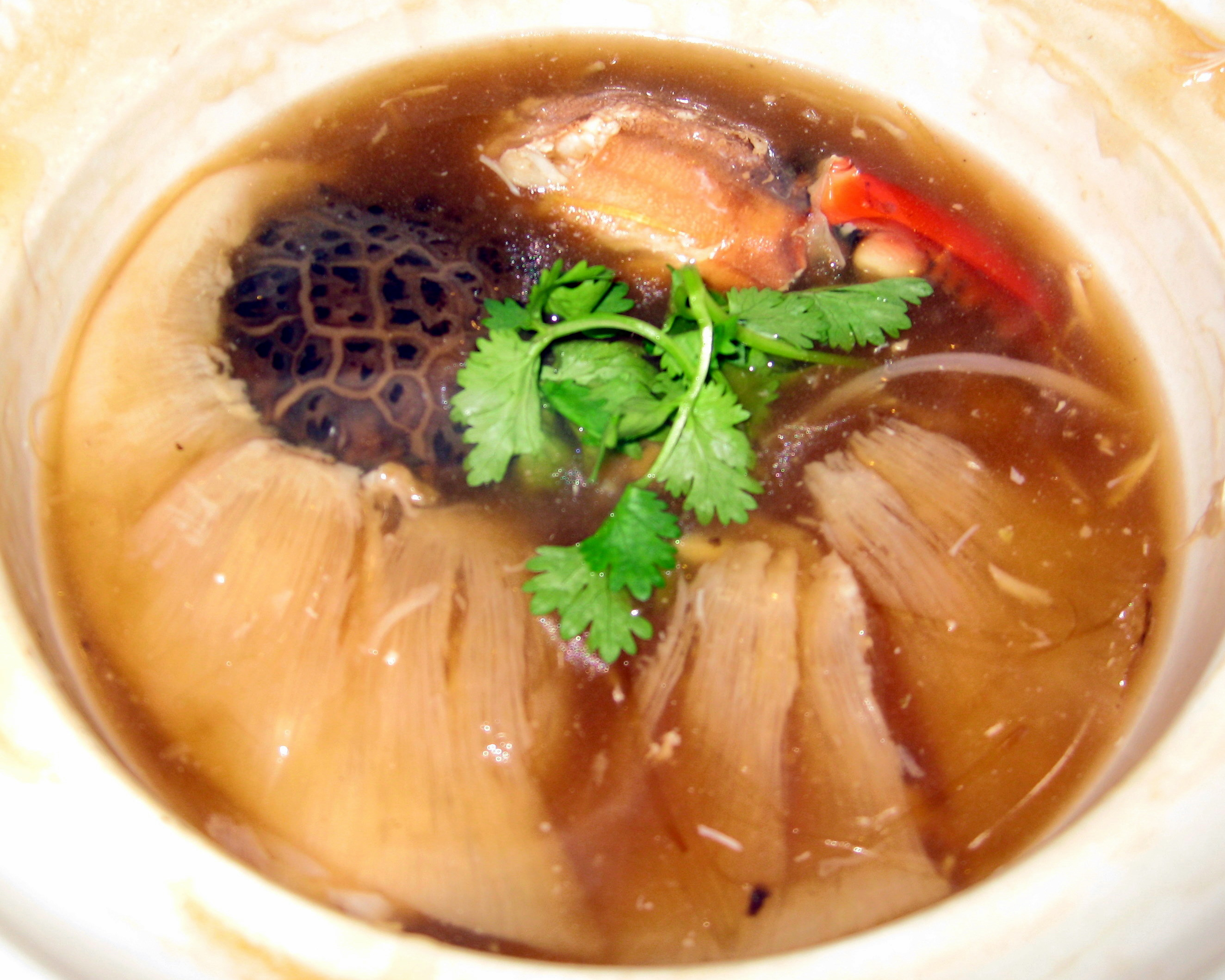 whole-shaped Shark fin Stew, Chinese cuisine - Thailand